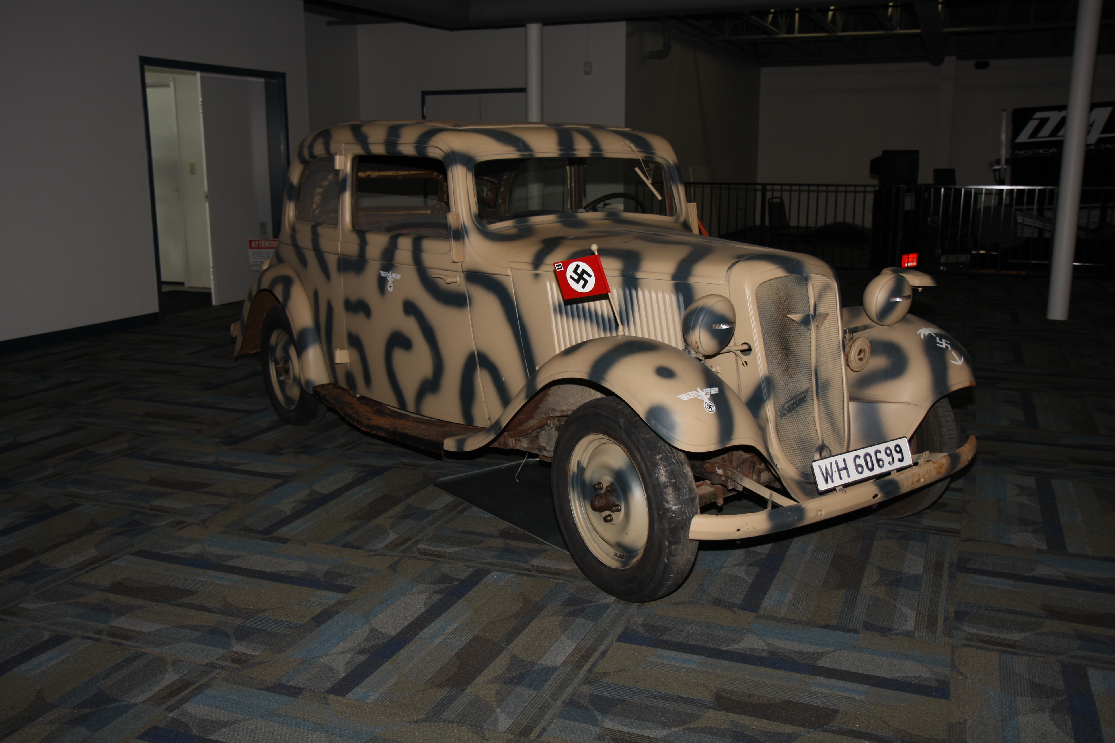 Military Air Museum's German Staff Car, probably Hanomag Kurier Typ 11 K